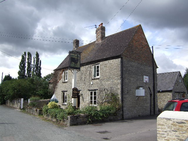 The Black Bull, Launton. Draught Bass served alongside other beers. Old Halls Brewery sign attached to post.